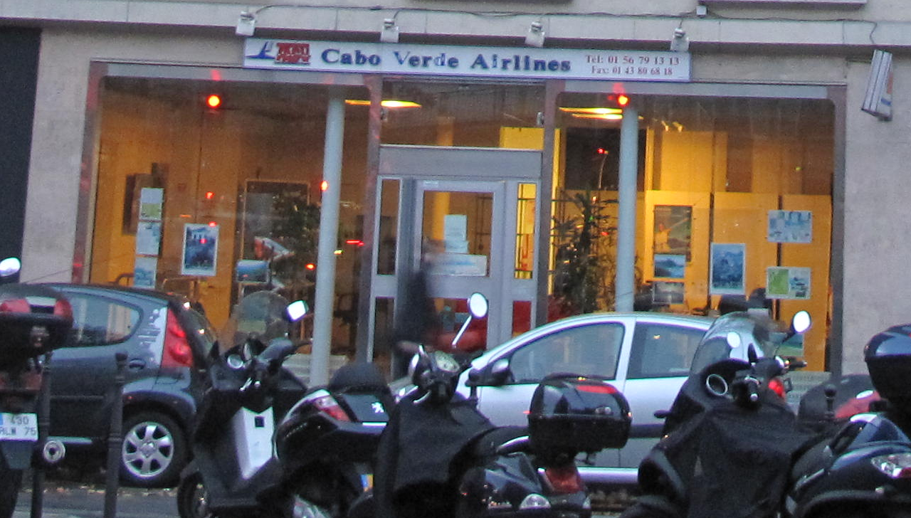 101 rue de Prony, Paris 17th arrond. - TACV Cabo Verde store